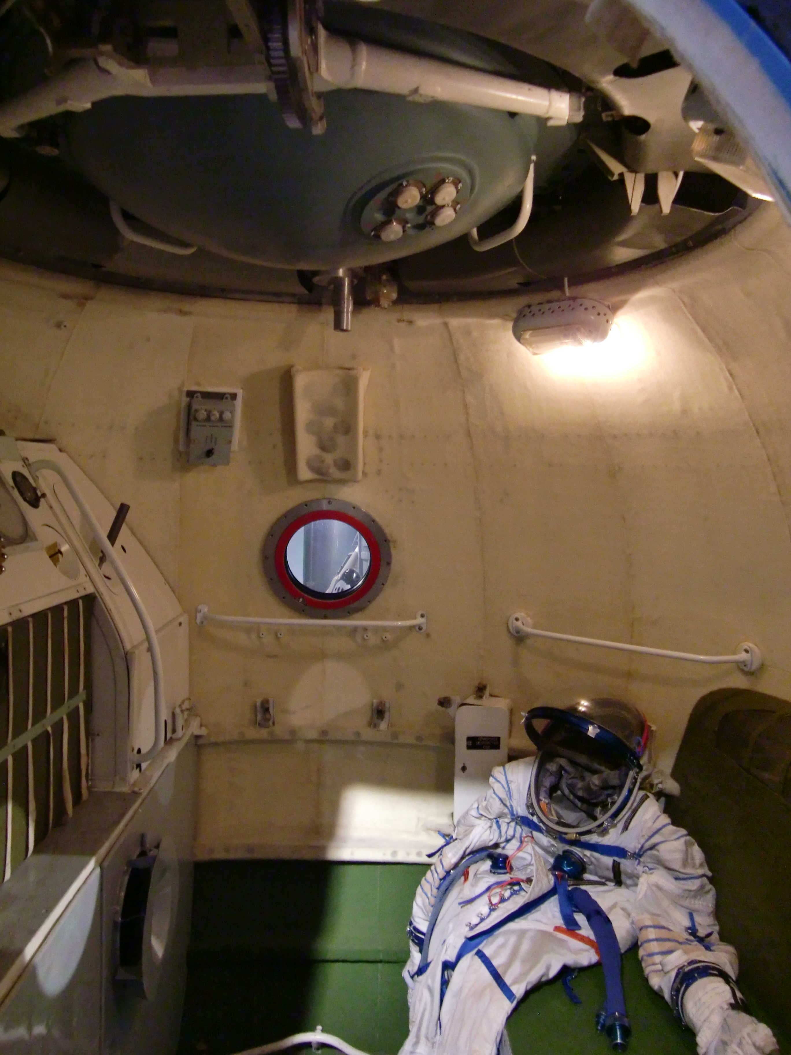 1:1 Mockup of a Soyuz Orbital Module